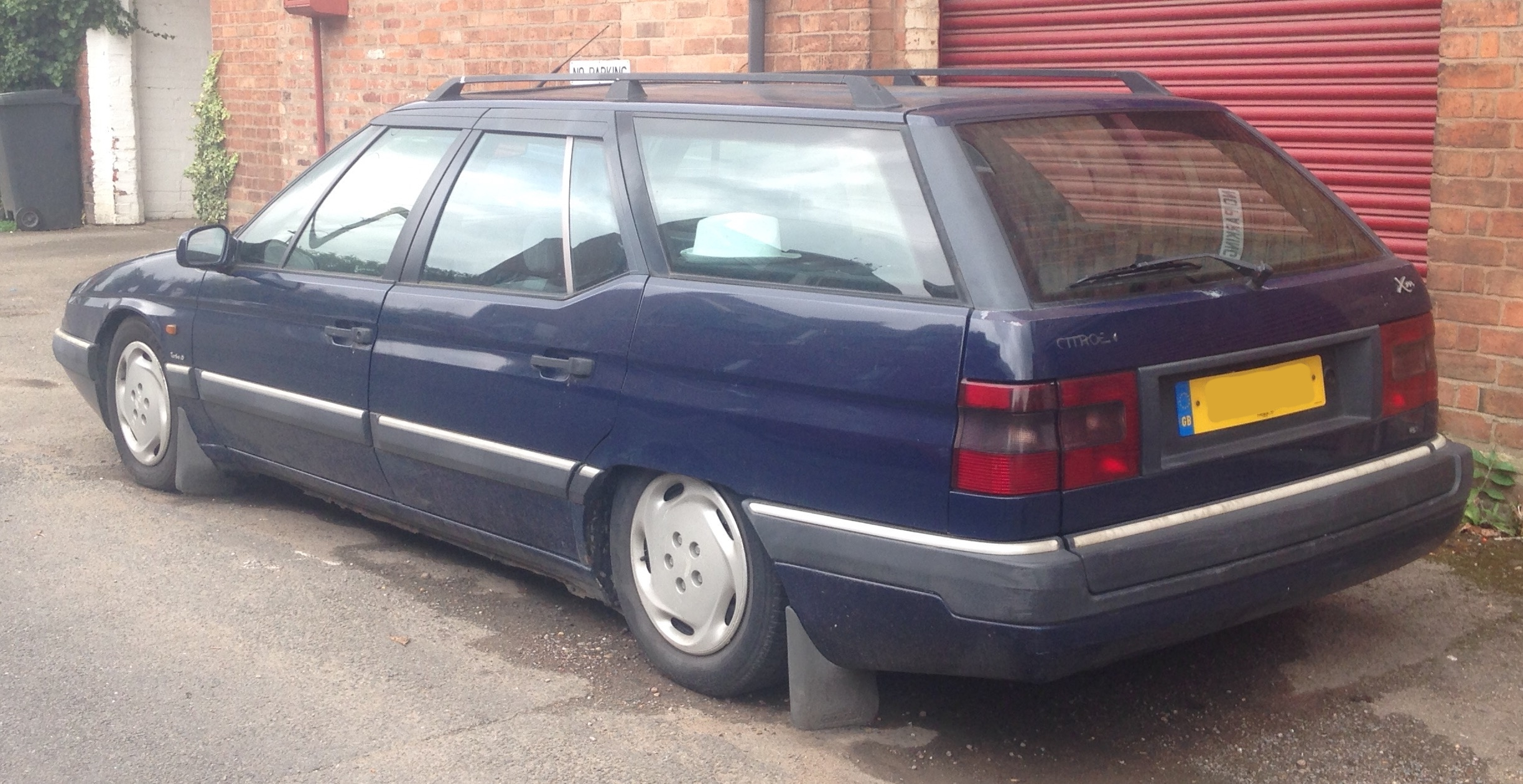 1995 Citroen XM Break VSX Turbo 2.0 Rear Taken in Warwick